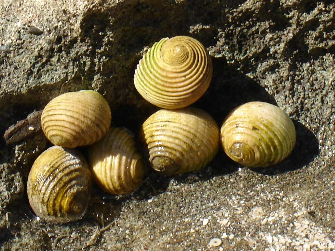 cluster of sea snails Nerita plicata at low tide. Turtle Island (Vatoa), Fiji